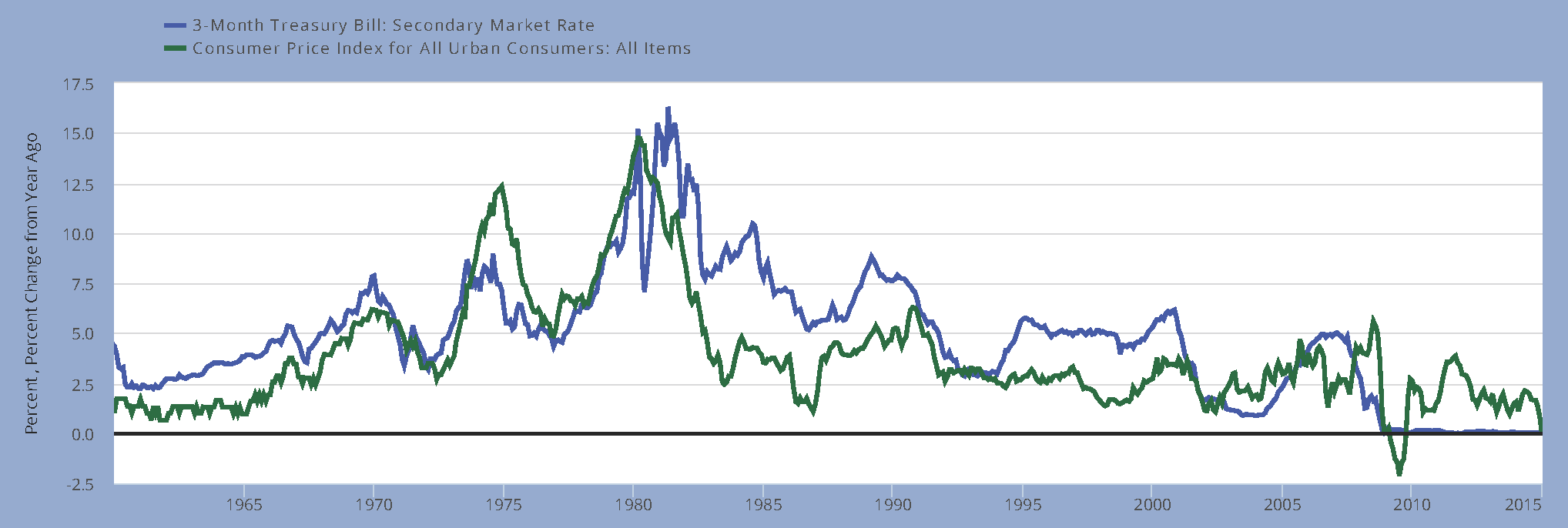 US CPI Inflation and 3 Month T-bill interest rates from 1960 to 2014, using data from the Federal Reserve Bank of St. Louis (series CPIAUCNS, TB3MS, MED3, DGS2).